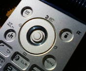 NEC Cell Phone's Function "Neuro Pointer"